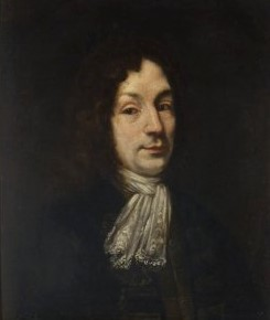 Luca Antonio Predieri (1688–1767), Italian composer and violinist.